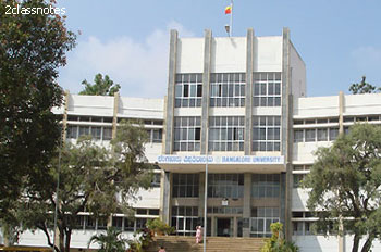 The Jnana Bharathi Campus of the university